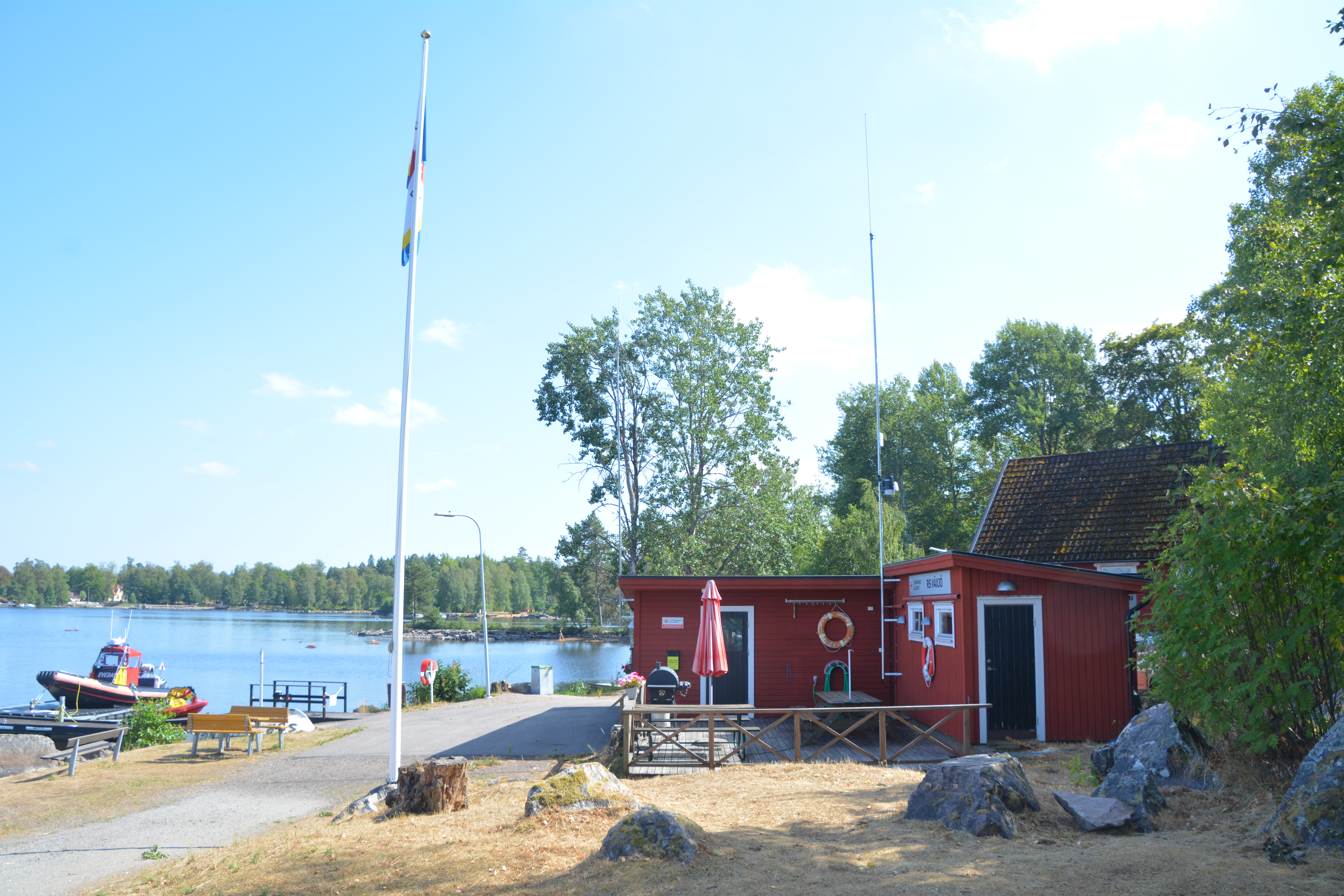 Räddningsstation Kronoberg